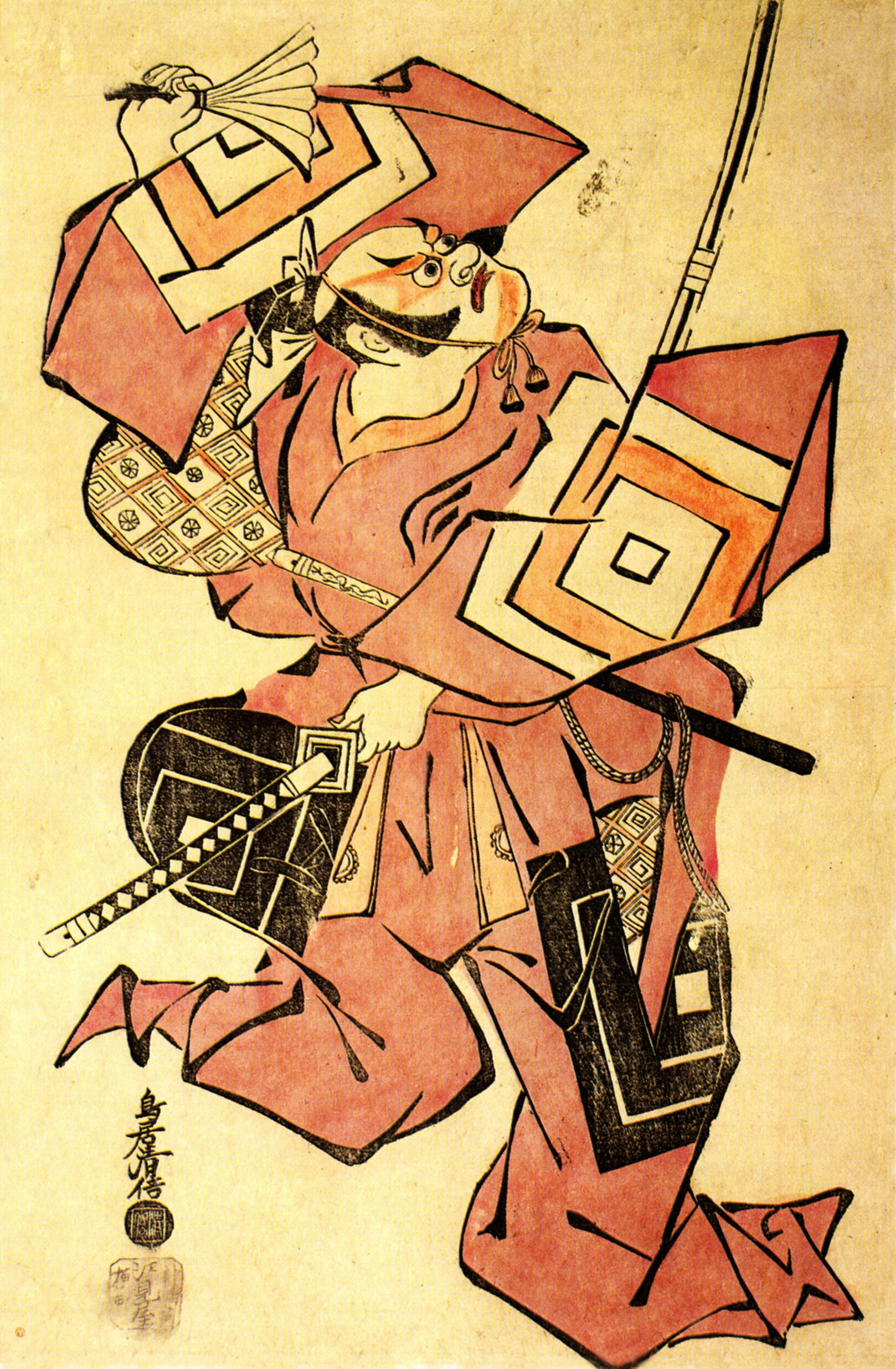 Kabuki actor Danjūrō Ichikawa II in the lead role of Shibaraku. Color on silk.